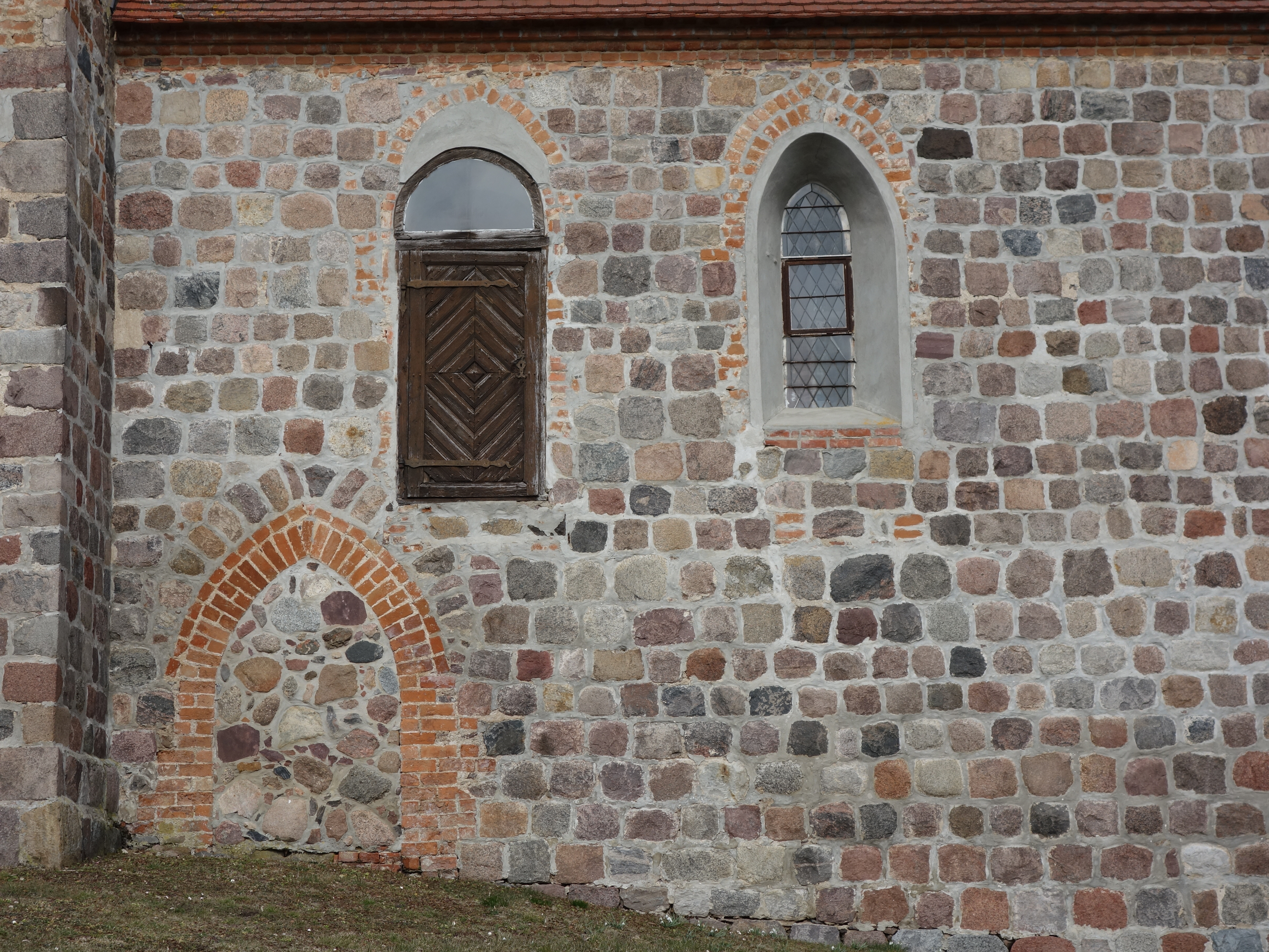 Blocked southern portal of church in Dedelow, Prenzlau municipality, Uckermark district, Brandenburg state, Germany